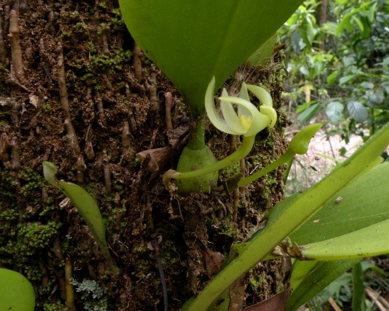 Bulbophyllum baileyi var. alba growing on Pandanus solms-laubachii in the tropical rainforest of north Queensland, Australia.